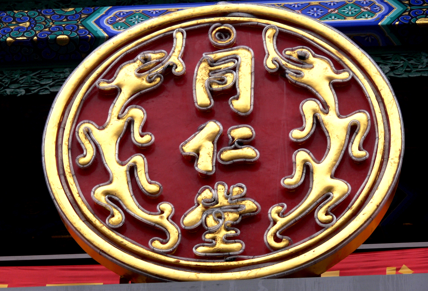 Beijing Dashala Tongrentang herbal medicine store